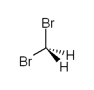 Created using: ACD/ChemSketch